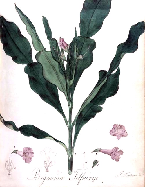 'Bignonia telfairia' from sketches of plants made at Mauritius to accompany John Newman's report of May 1829, [FCO Historical Collection]